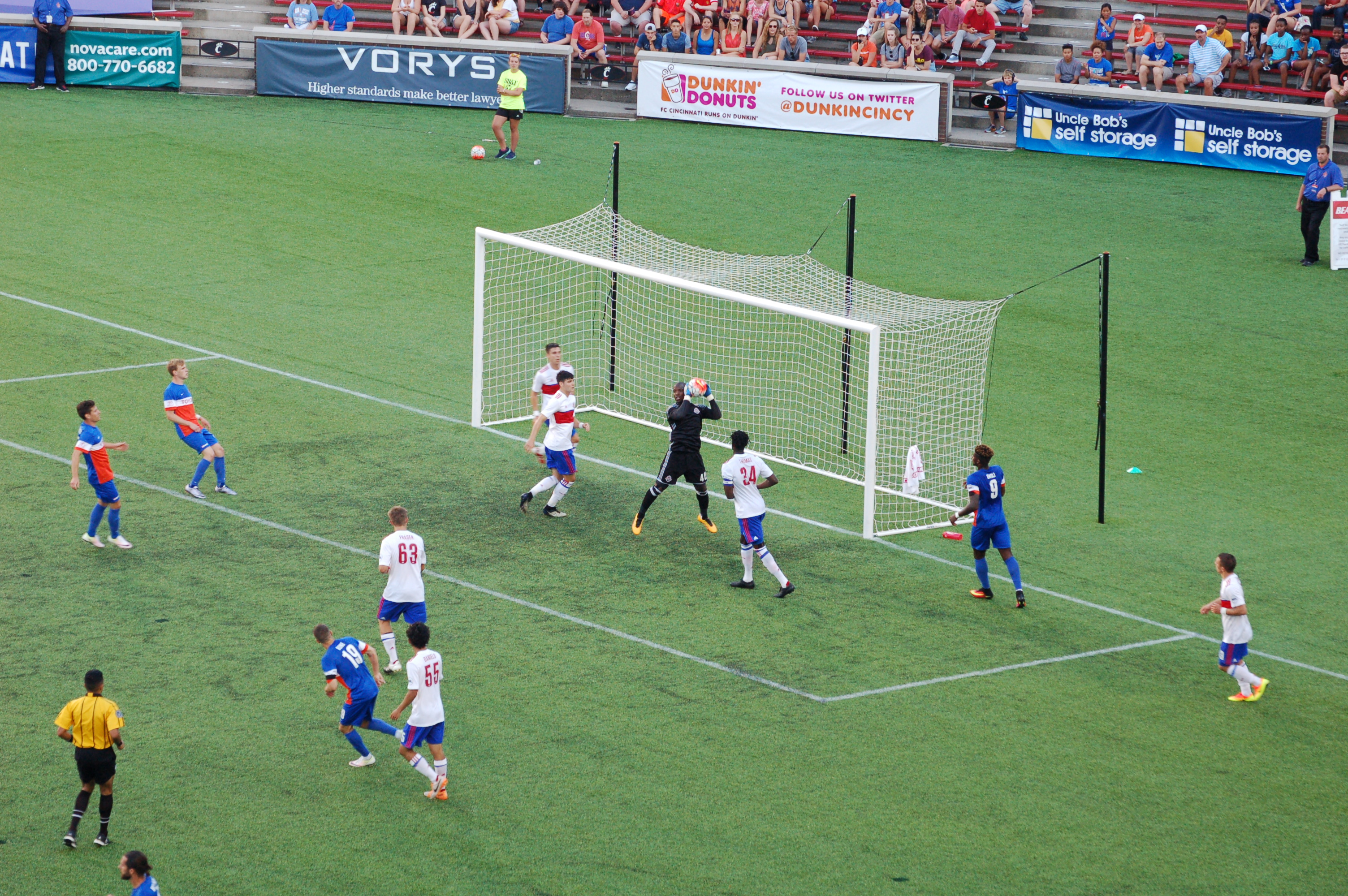 Quillan Roberts (TFC) makes save Taken during a match between FC Cincinnati and Toronto FC II at Nippert Stadium in Cincinnati on June 18, 2016.